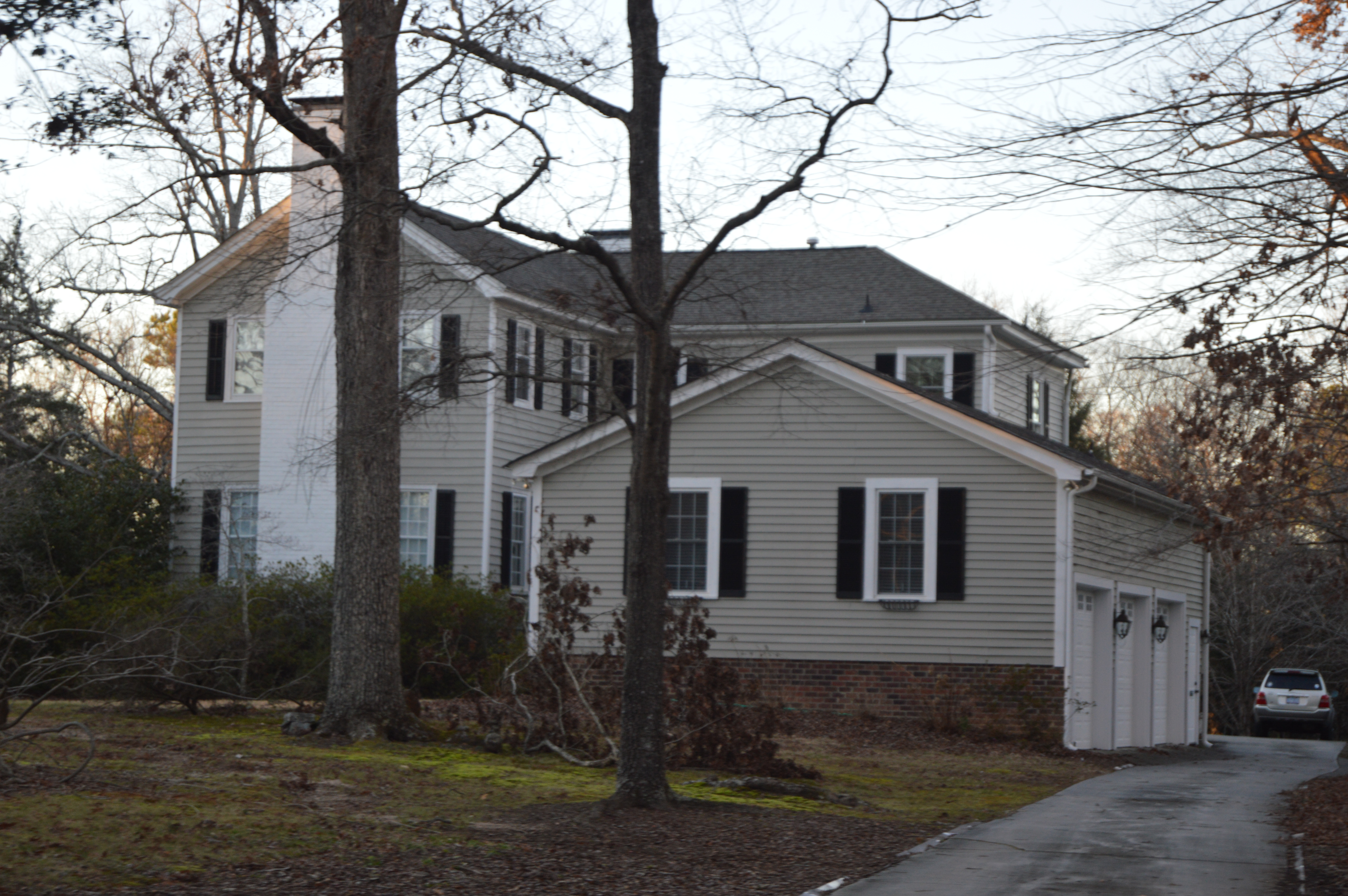 Distant side view of the Joseph B. Littlejohn House, located on High Street in Oxford, North Carolina, United States. Built in 1820, it is listed on the National Register of Historic Places.